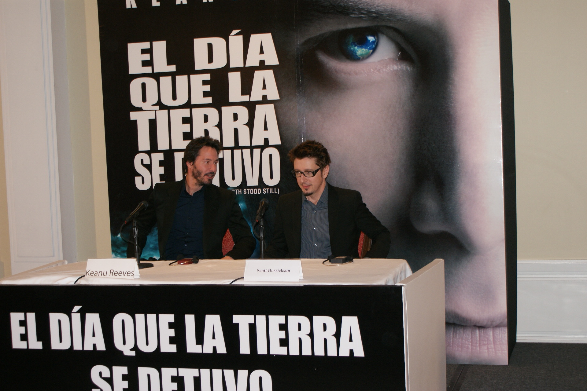 Keanu Reeves and Scott Derrickson promote their movie The Day the Earth Stood Still, in Mexico.